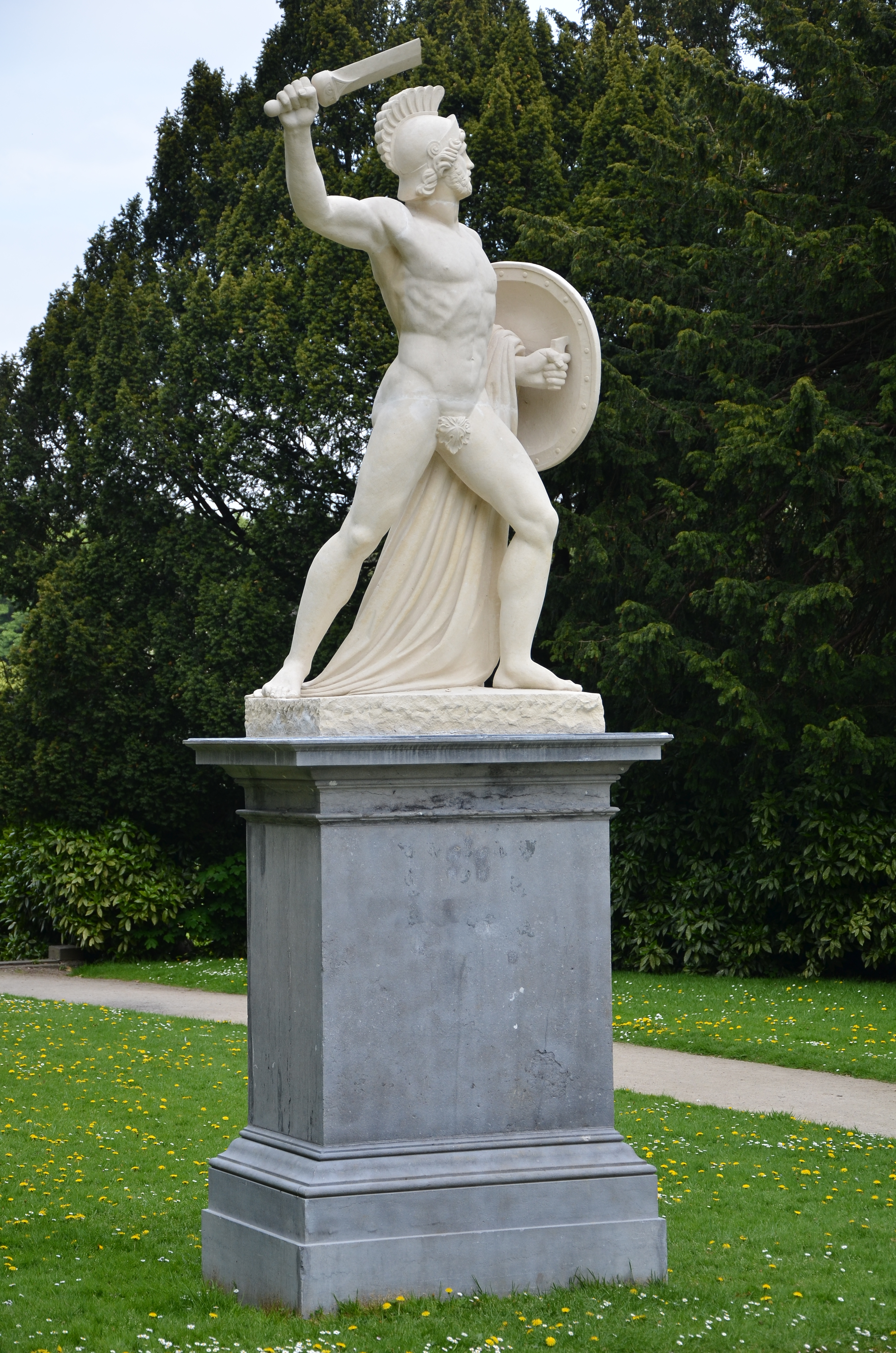 Claudius Civilis, park Tervuren